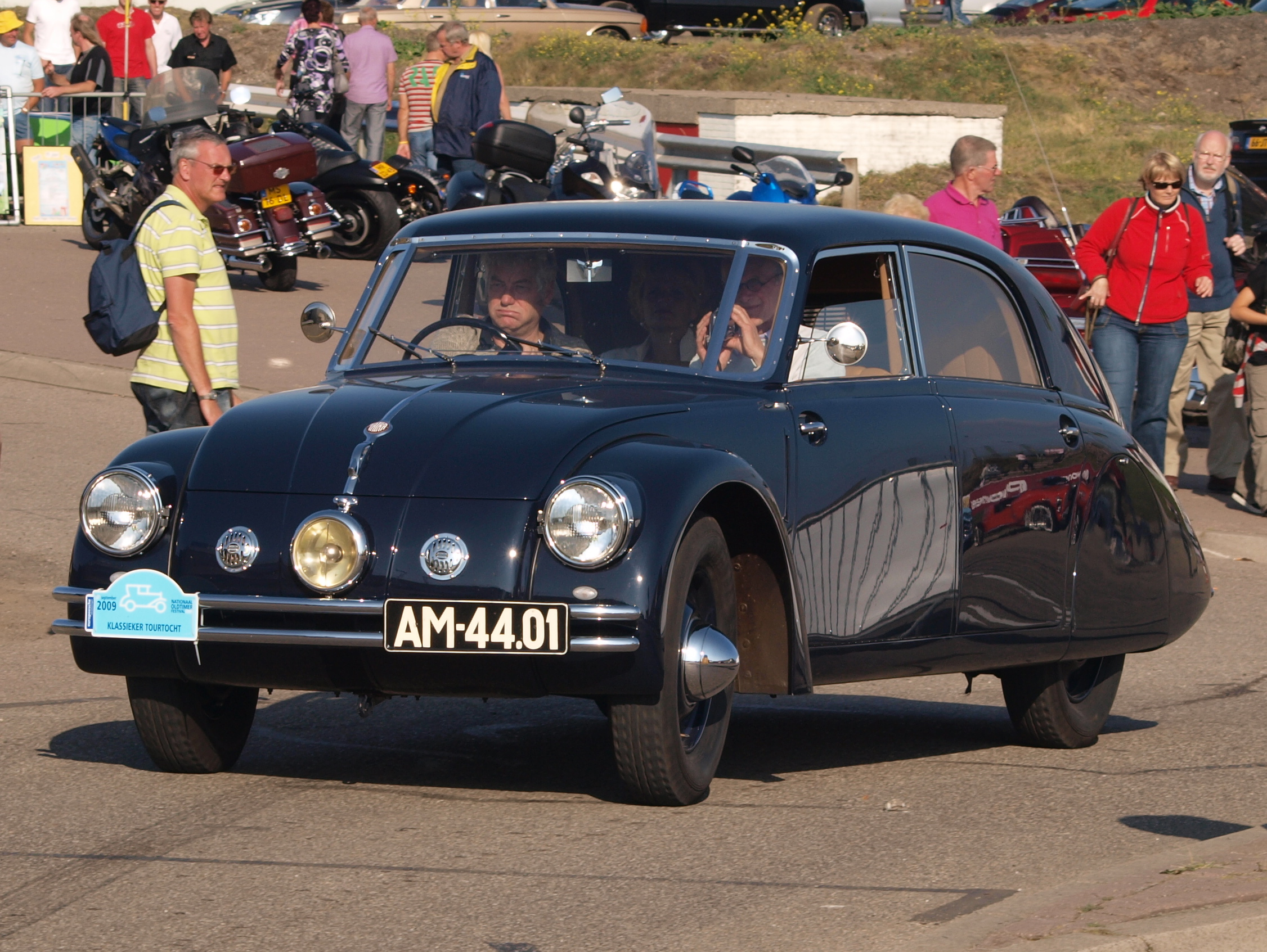 Photographed at the Nationaal Oldtimer Festival Zandvoort 2009, The Netherlands. OLYMPUS DIGITAL CAMERA